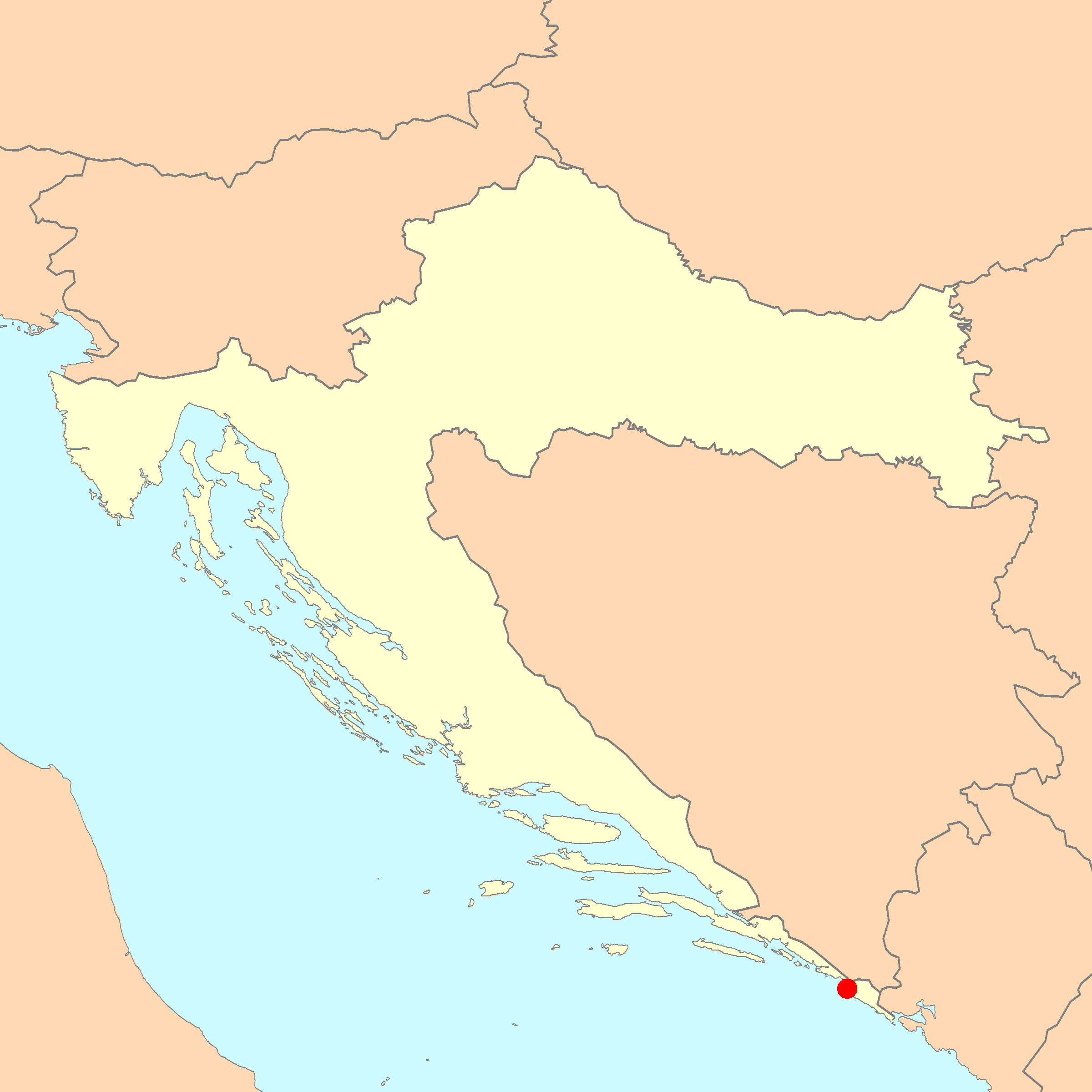 Location of Cavtat, Croatia